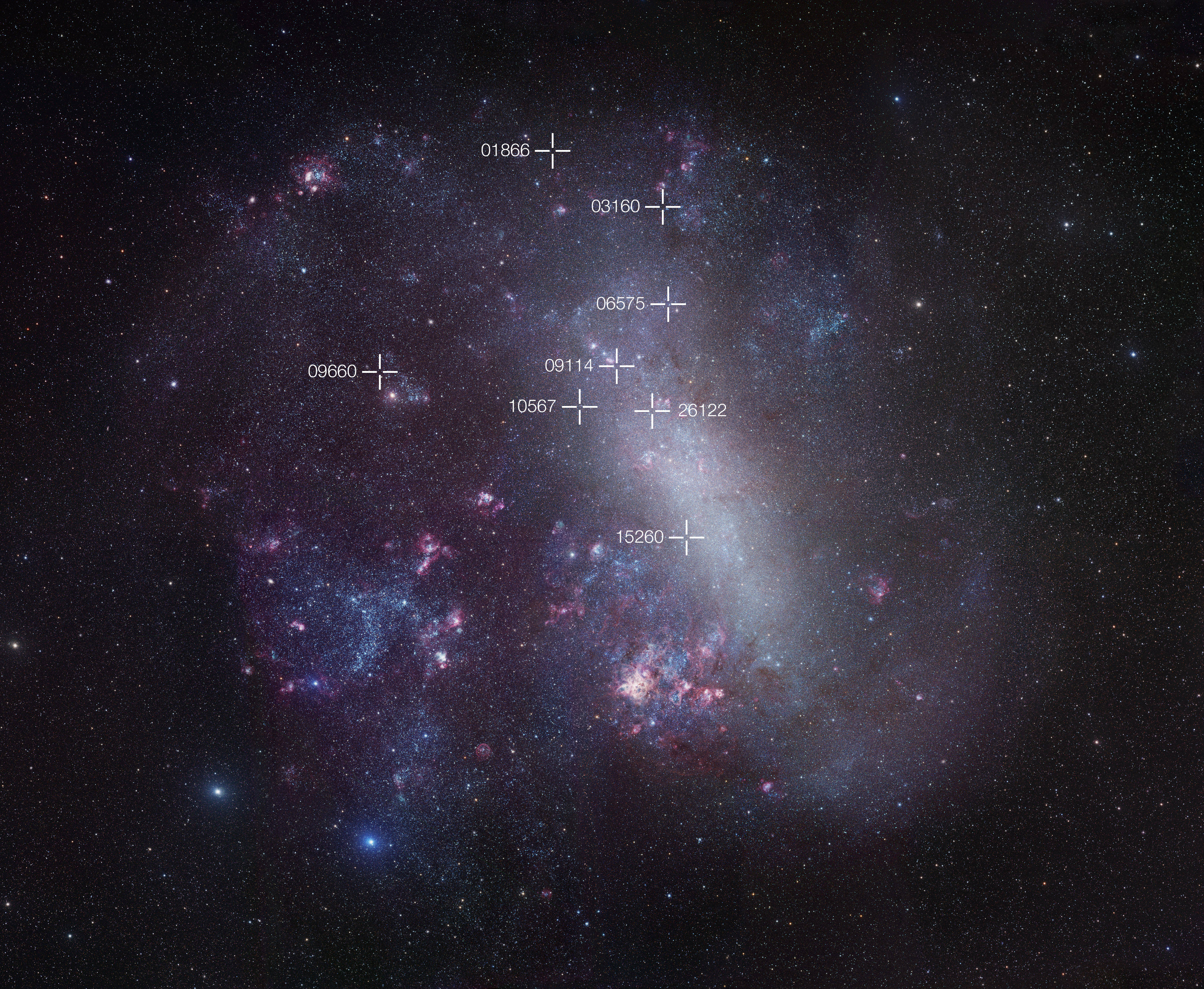 This photograph shows the Large Magellanic Cloud, a neighbouring galaxy to the Milky Way. The positions of eight faint and rare cool eclipsing binary stars are marked with crosses (these objects are too faint to appear directly in this picture). By studying how their light changes, and other properties of these systems, astronomers can measure the distances to eclipsing binaries very accurately. A long series of observations of these objects has now led to the most accurate determination so far of the distance to the Large Magellanic Cloud — a crucial step in the determination of distances across the Universe.